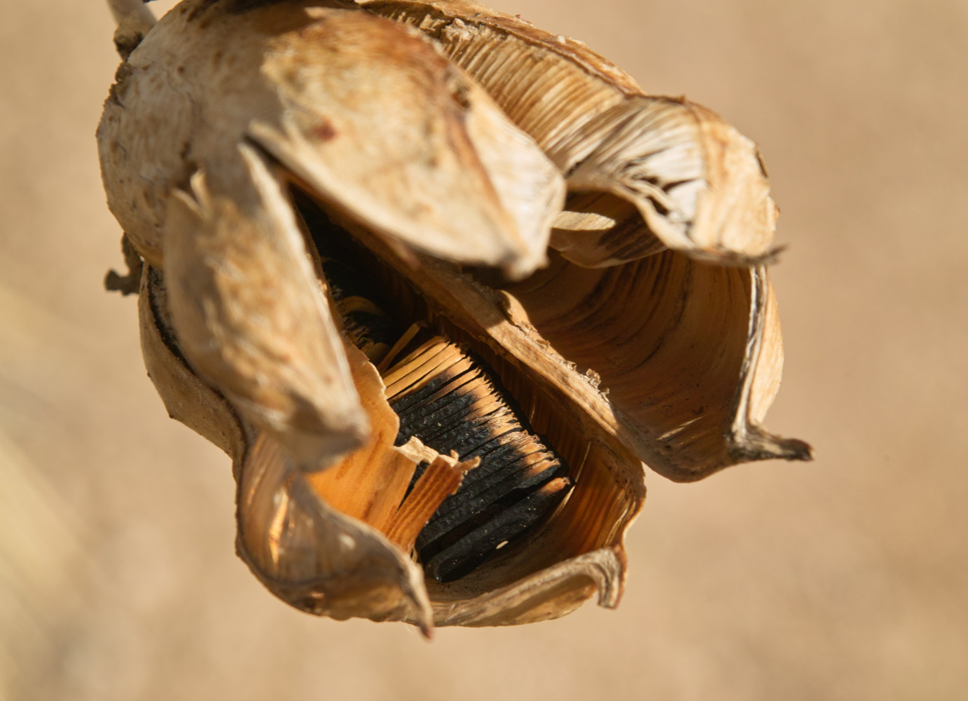 A dry opened seed pod of Yucca elata, containing a few seeds still, between Kilbourne Hole and Vado NM, July 2012